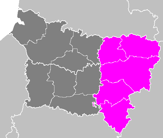 Arrondissement of Aisne